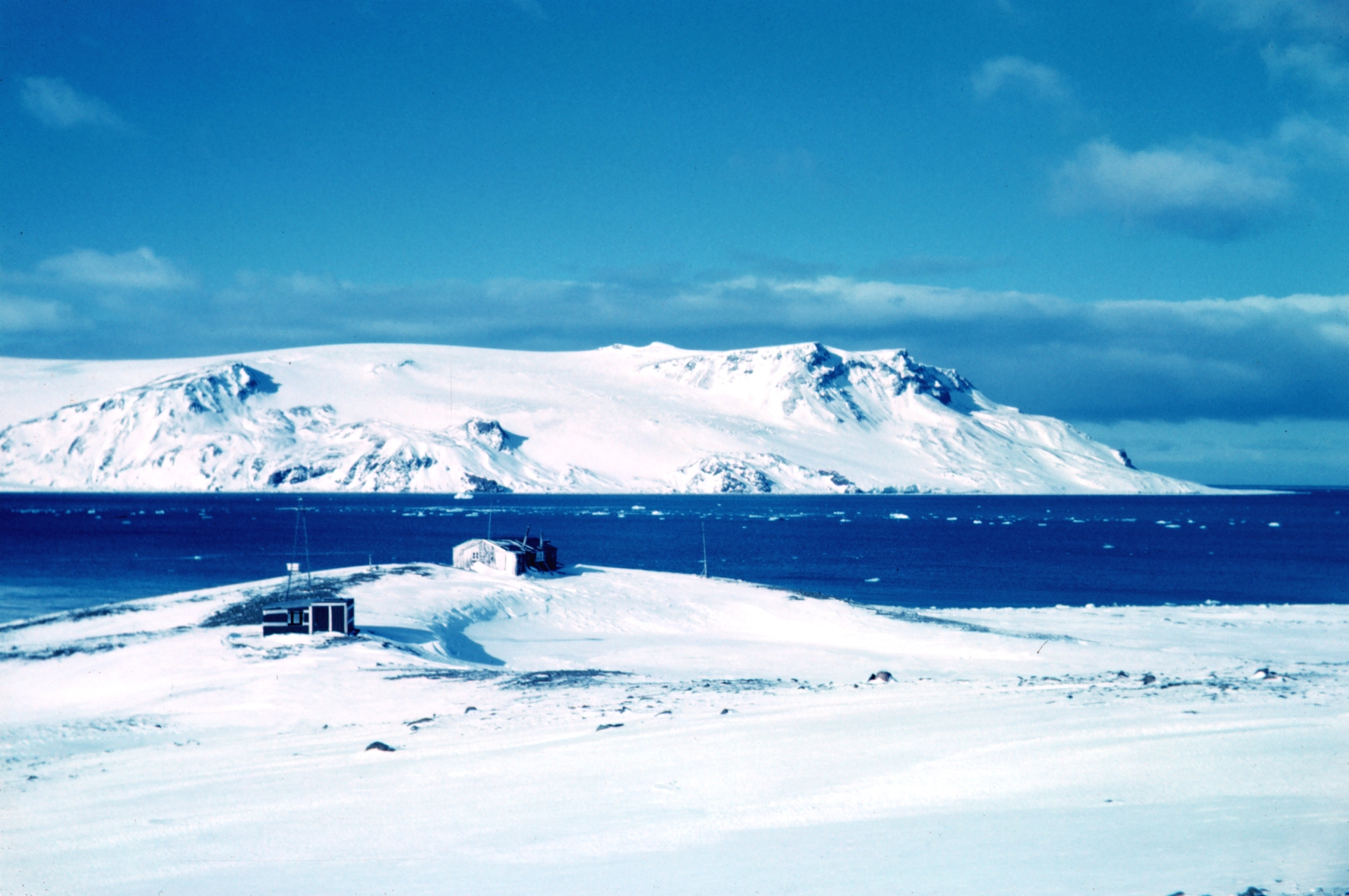 The old base camp G at Admiralty Bay, King George Island with a view over the Kraków Icefield on the other side of the bay.